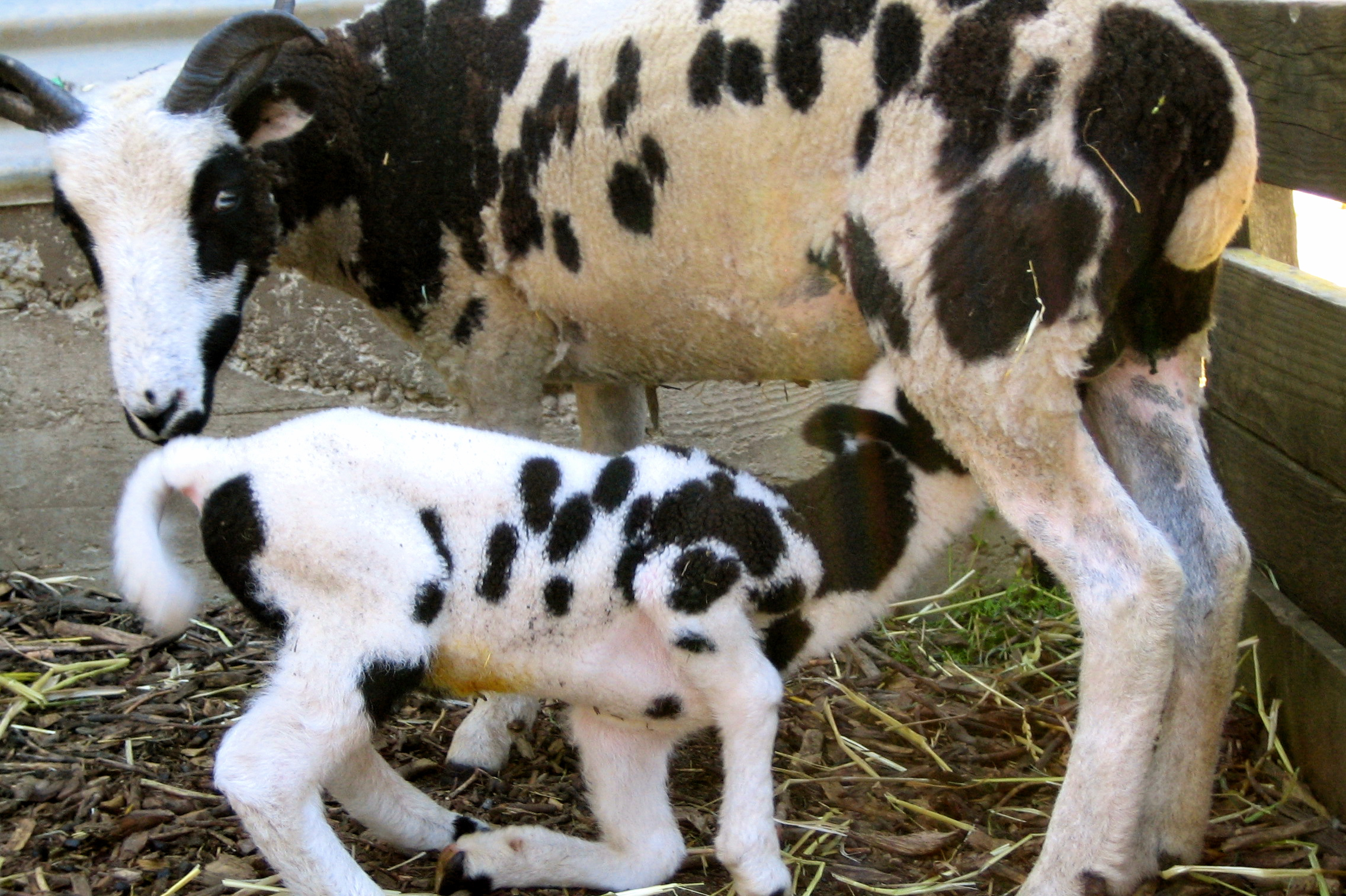 A Jacob ewe nursing her lamb.